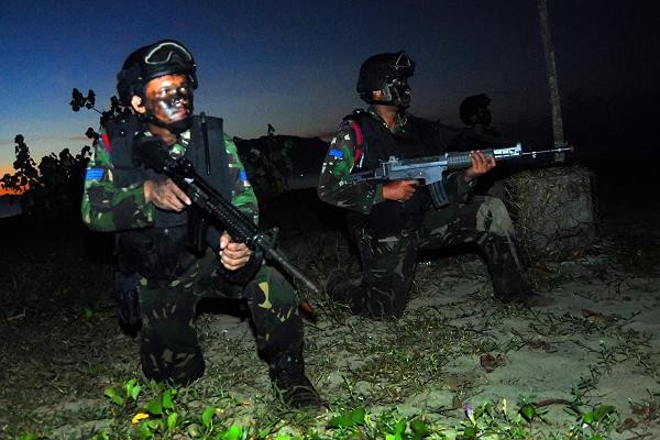 Yontaifib recon unit of the Indonesian Marine Corps, together with Marsoc of the United States Marine Corps,during a drill at Pancer Beach, Banyuwangi, East Java.